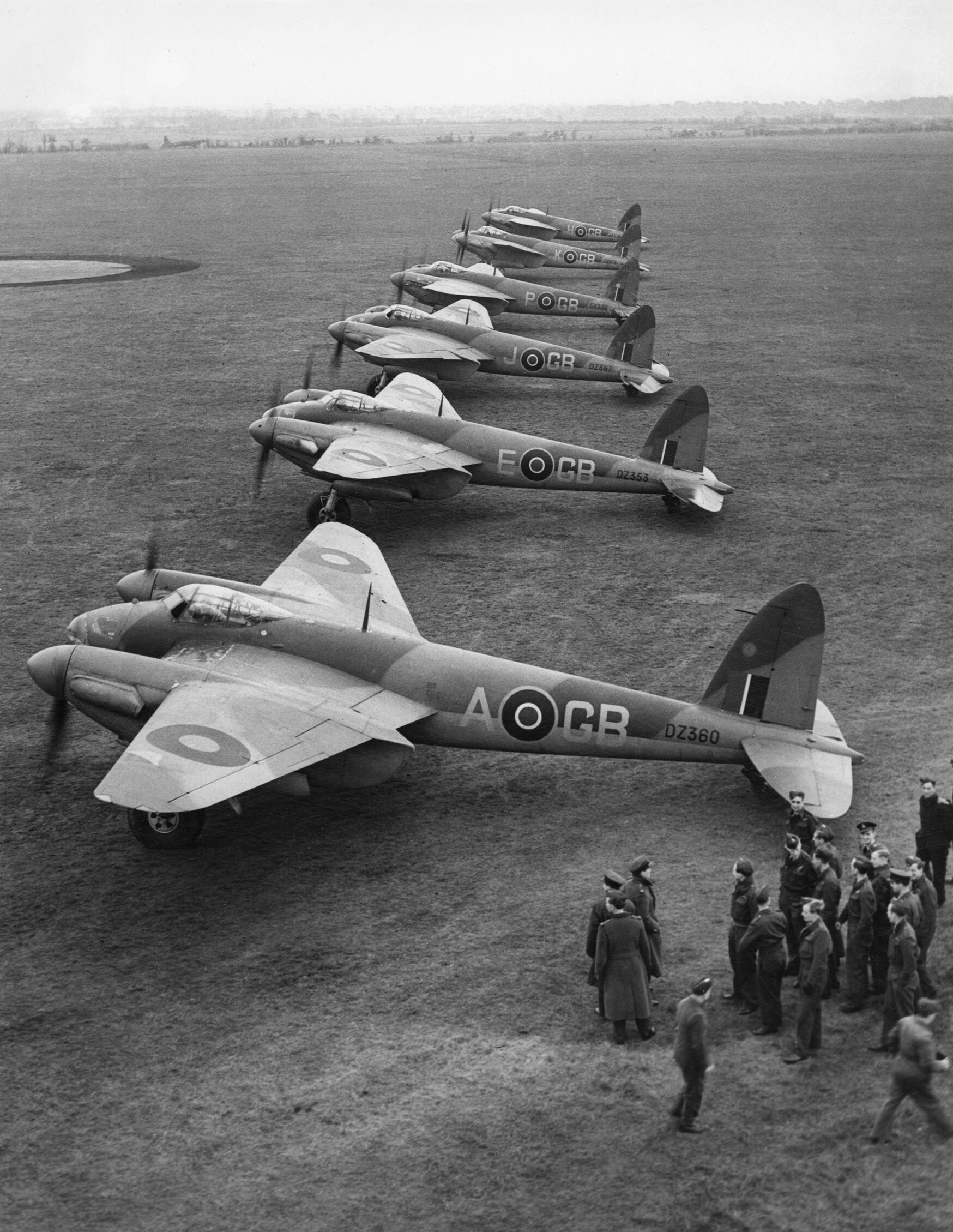 RAF Bomber Command Mosquito Mk IVs of No. 105 Squadron at Marham, December 1942.